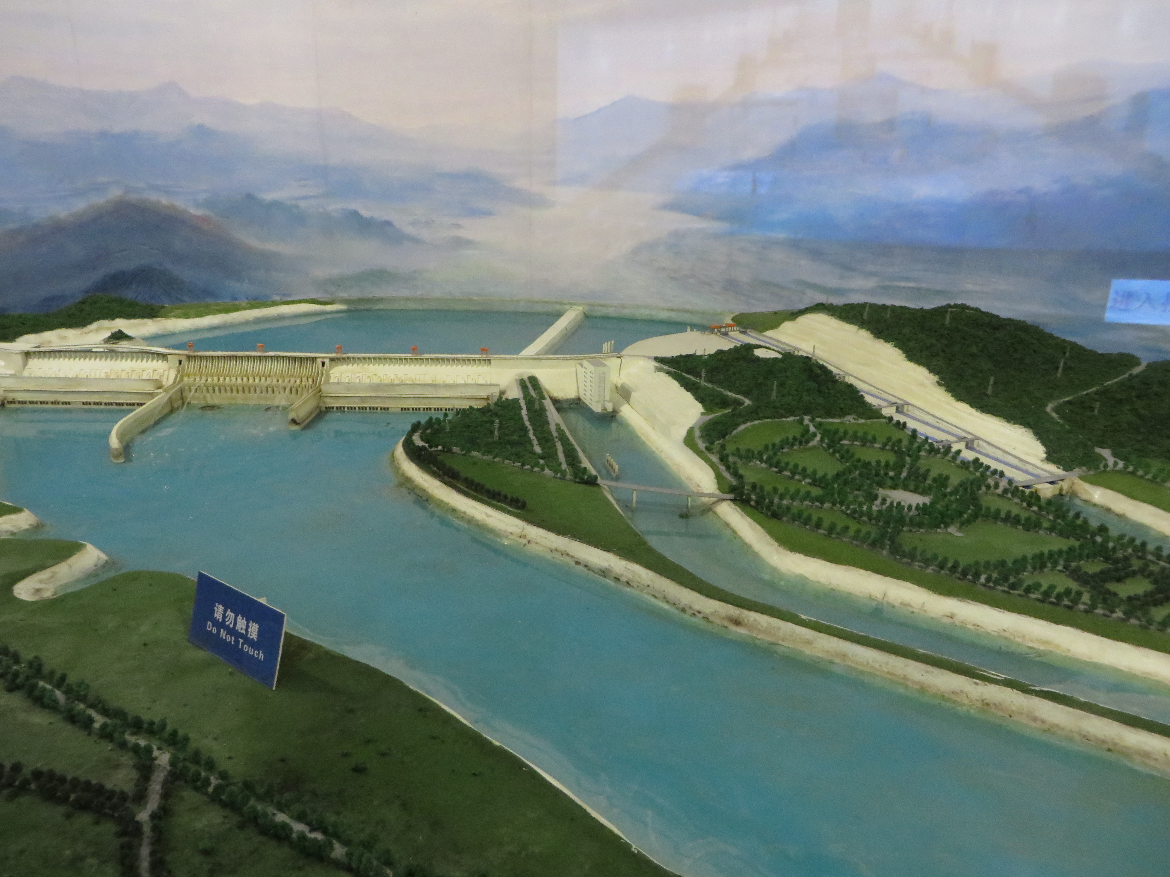 Model of the Three Gorges Dam in the Three Gorges Museum, Chongqing, China.